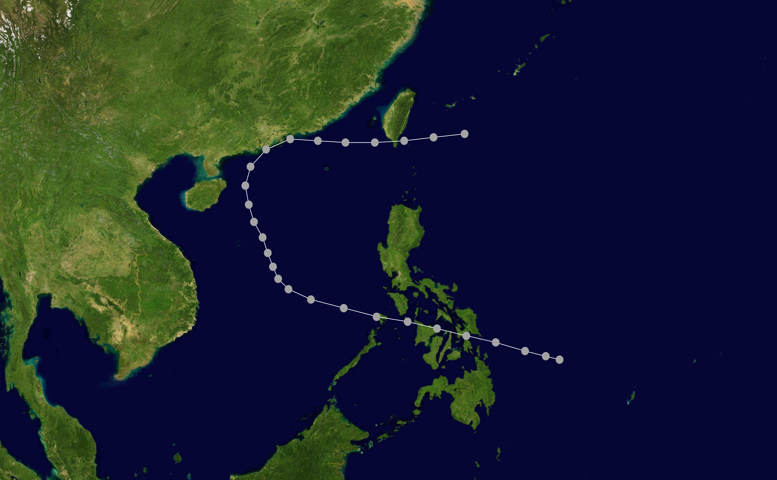 Track of 23-W from November 19, 1939 through November 26, 1939. Due to the age at witch this storm was observed from, one cannot rely on this track to be 100% accurate, but rather just a reference as to where the storm happened and the relative direction it traveled.